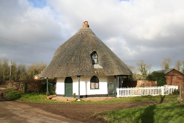 Cottage Ornee. A delightful octagonal Cottage Orne with overhanging eaves in Langton by Partney